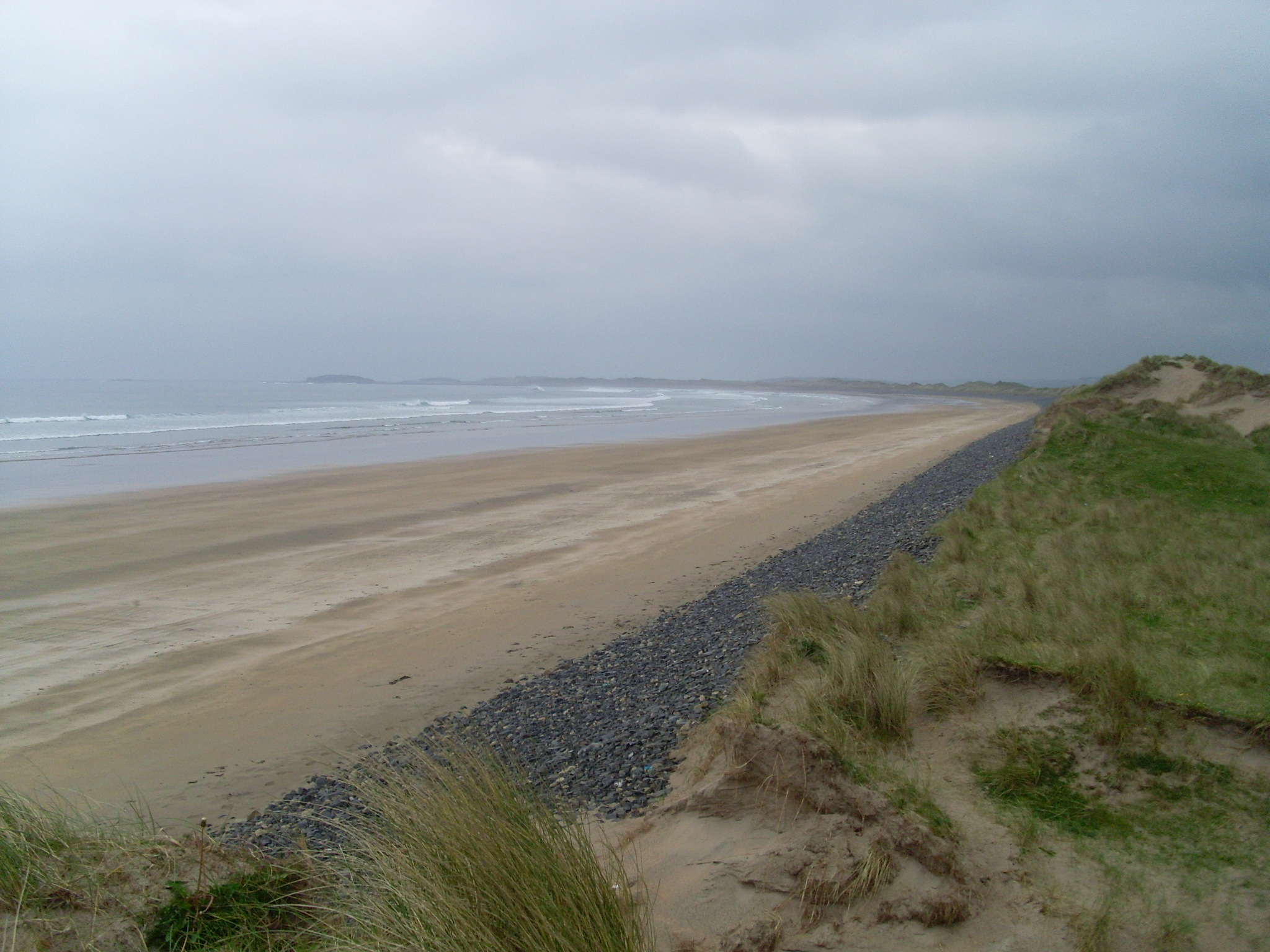 Streedagh Beach where Francisco De Cuellar was ship wrecked.